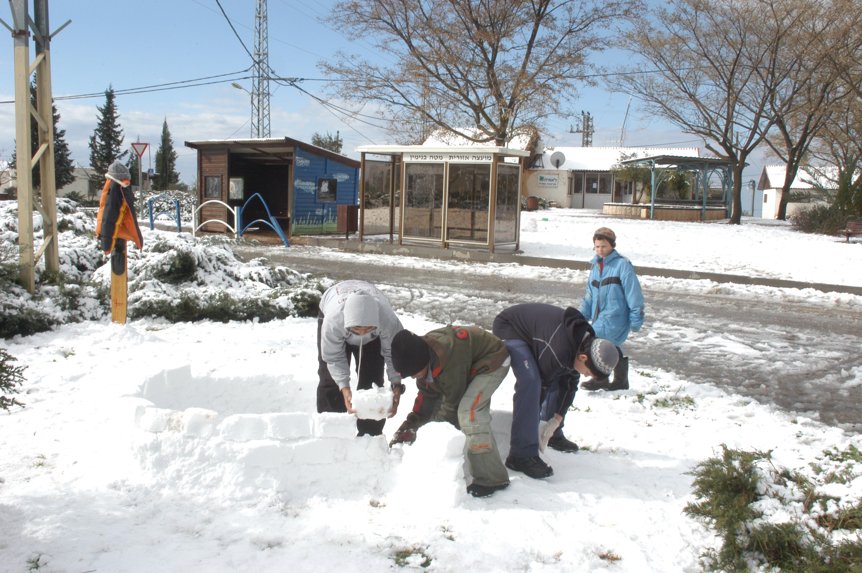 Snow in Ateret, January 2008